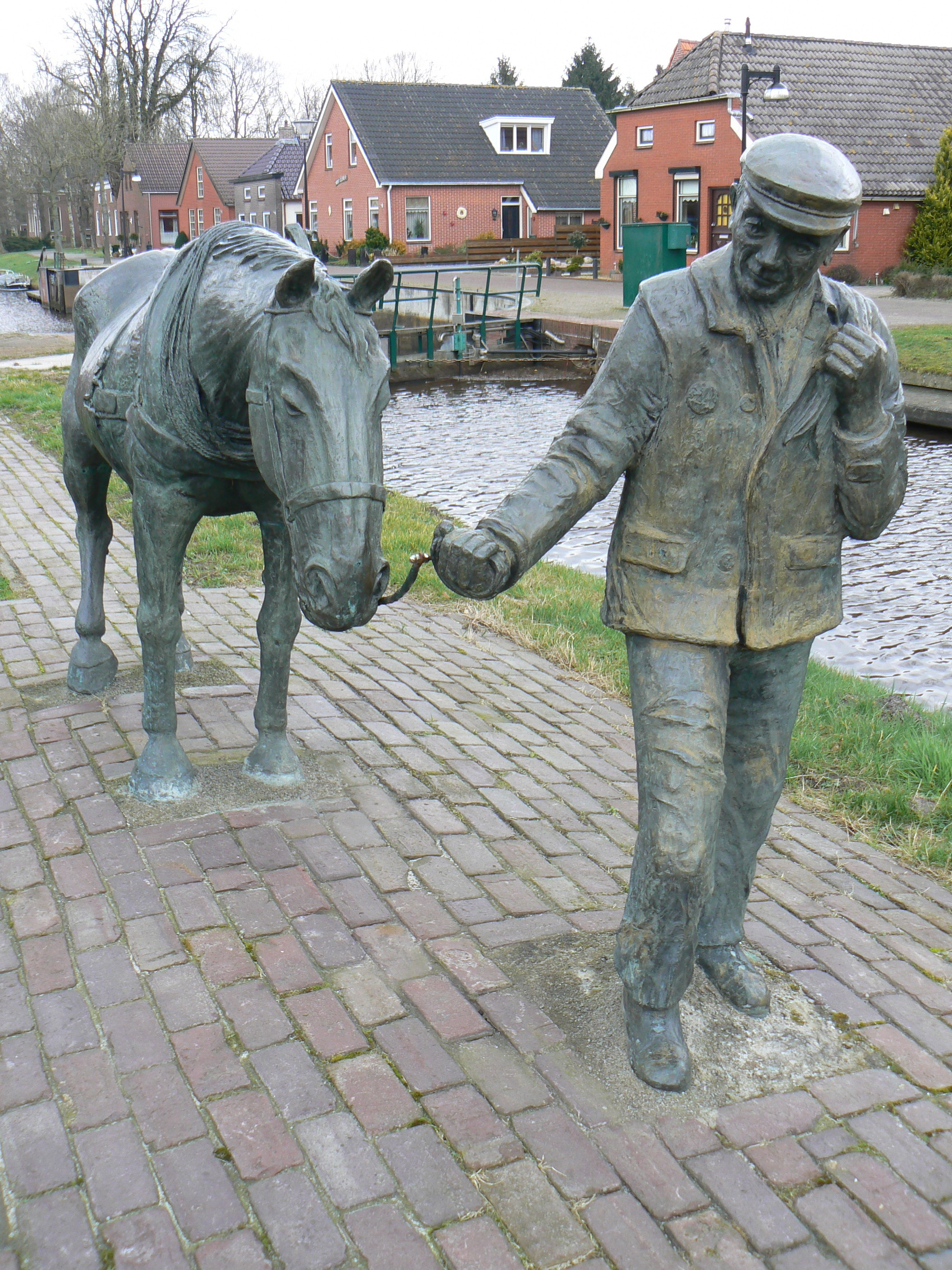 sculpture De Scheepsjager (1984) by Maria G. Klinkenberg in Bareveld/The Netherlands